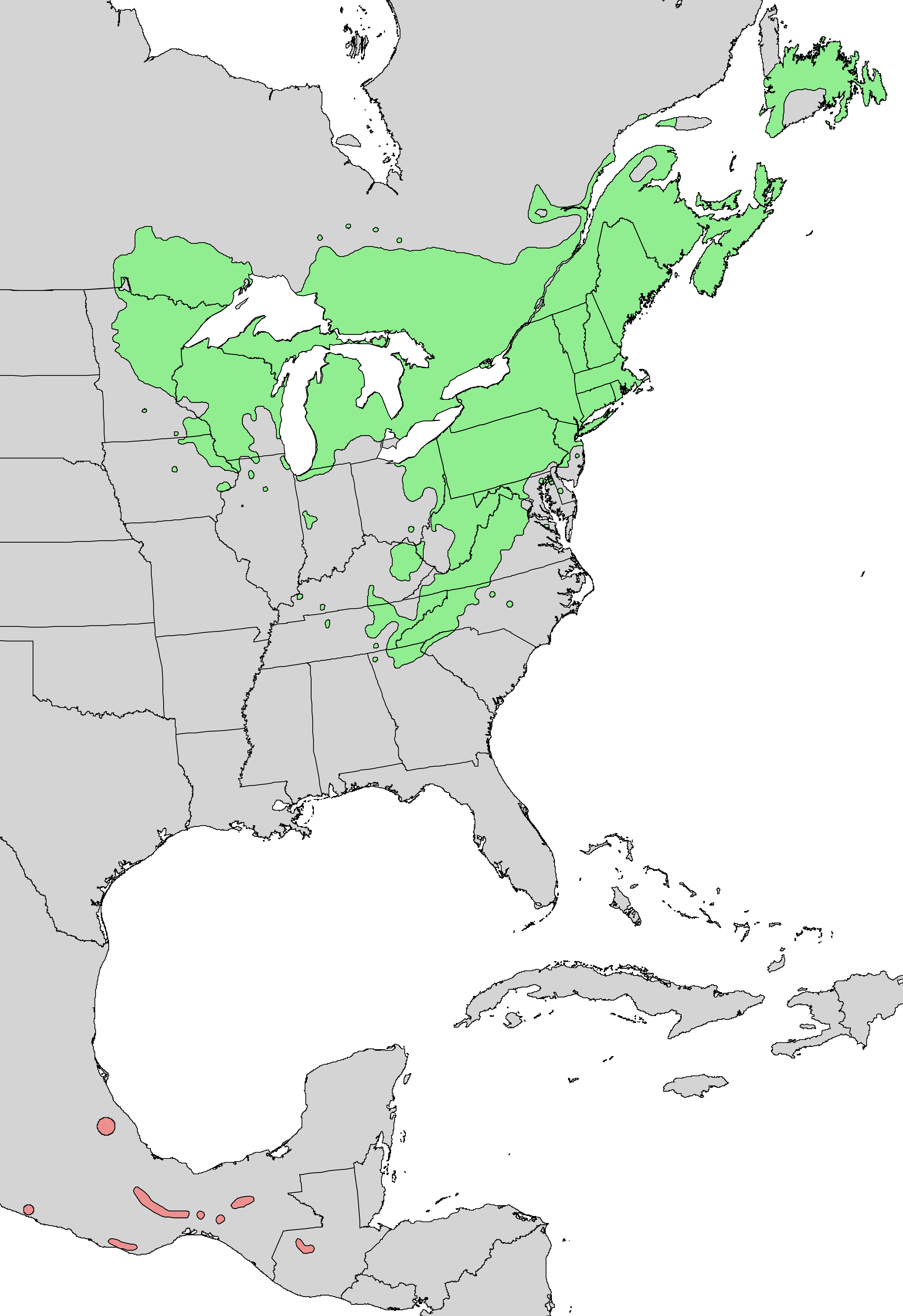 Natural distribution map for Pinus strobus and Pinus chiapensis (syn. Pinus strobus var./subsp. chiapensis)